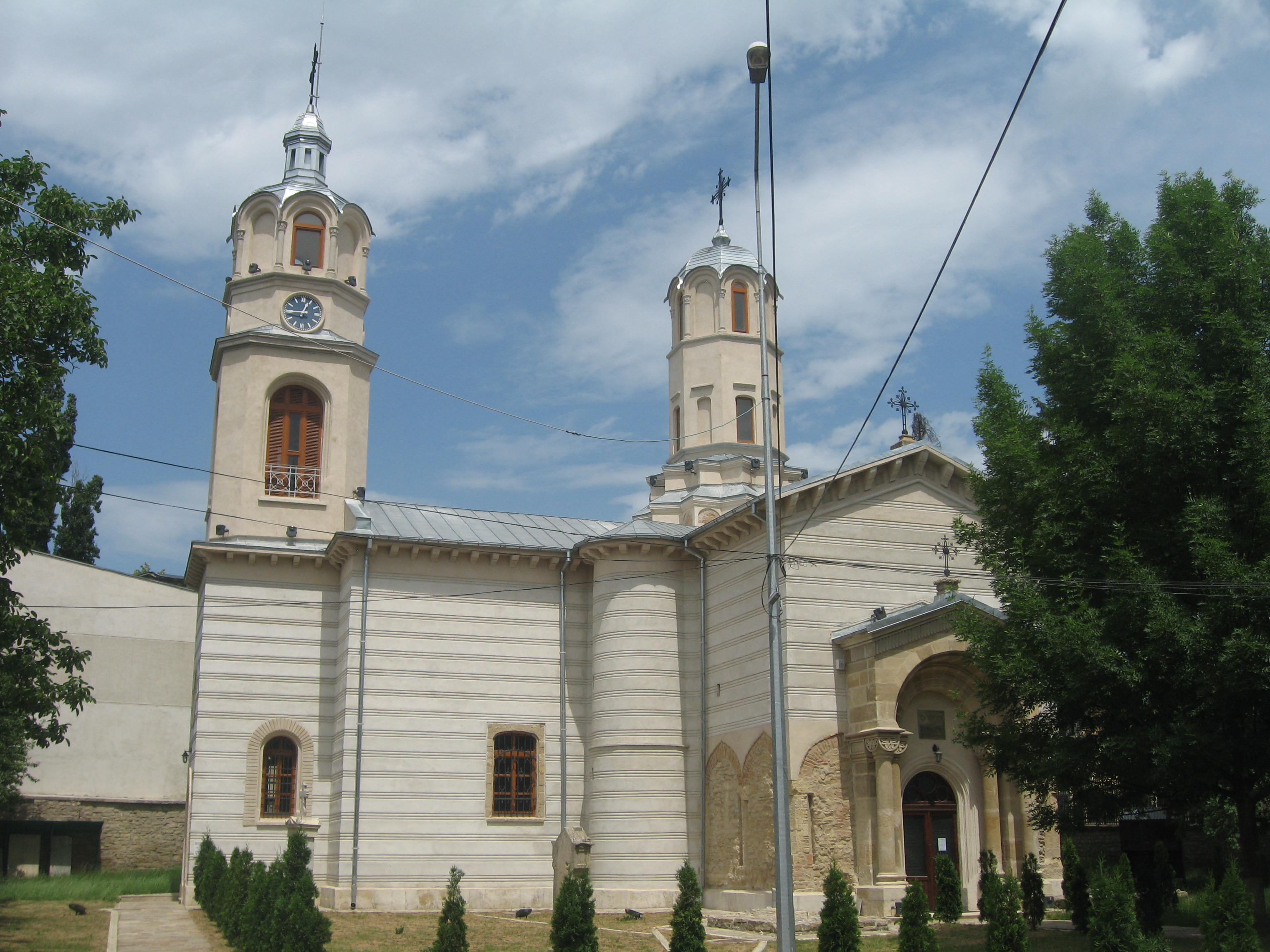 Armenian church in Iași